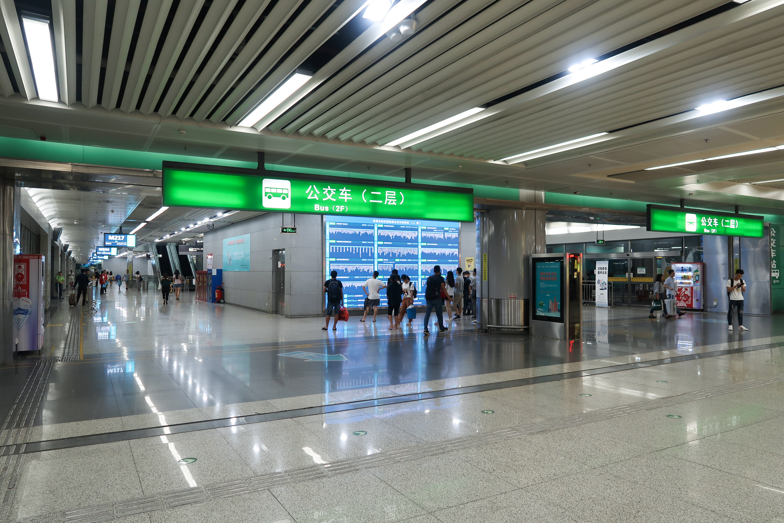 Shenzhen North Railway Station Bus Terminal